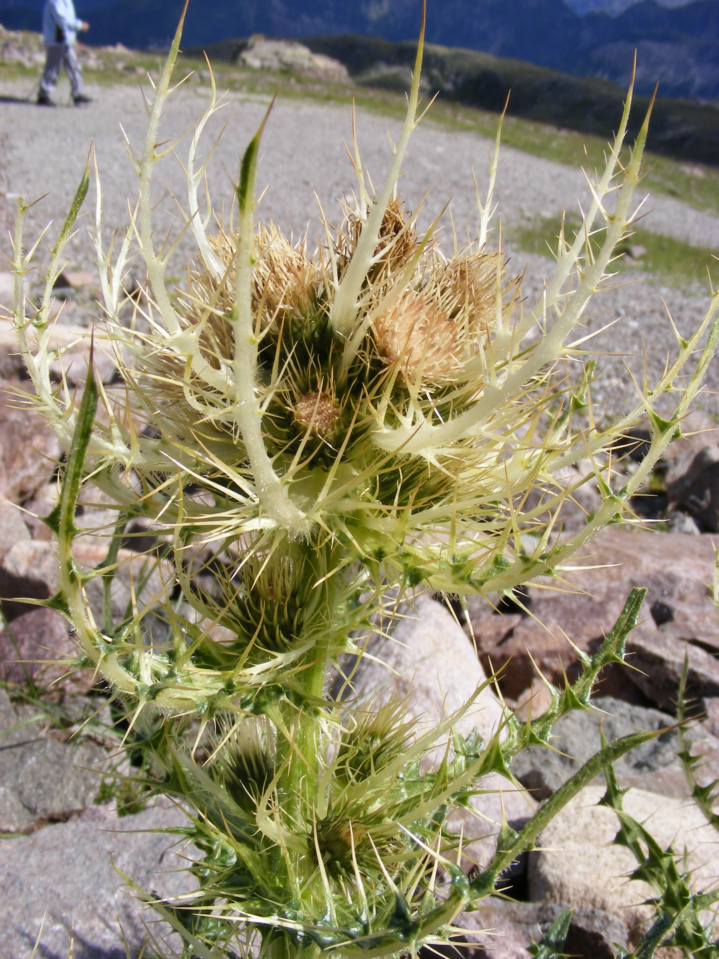 This photo shows Circium spinosissimum Flowerhead